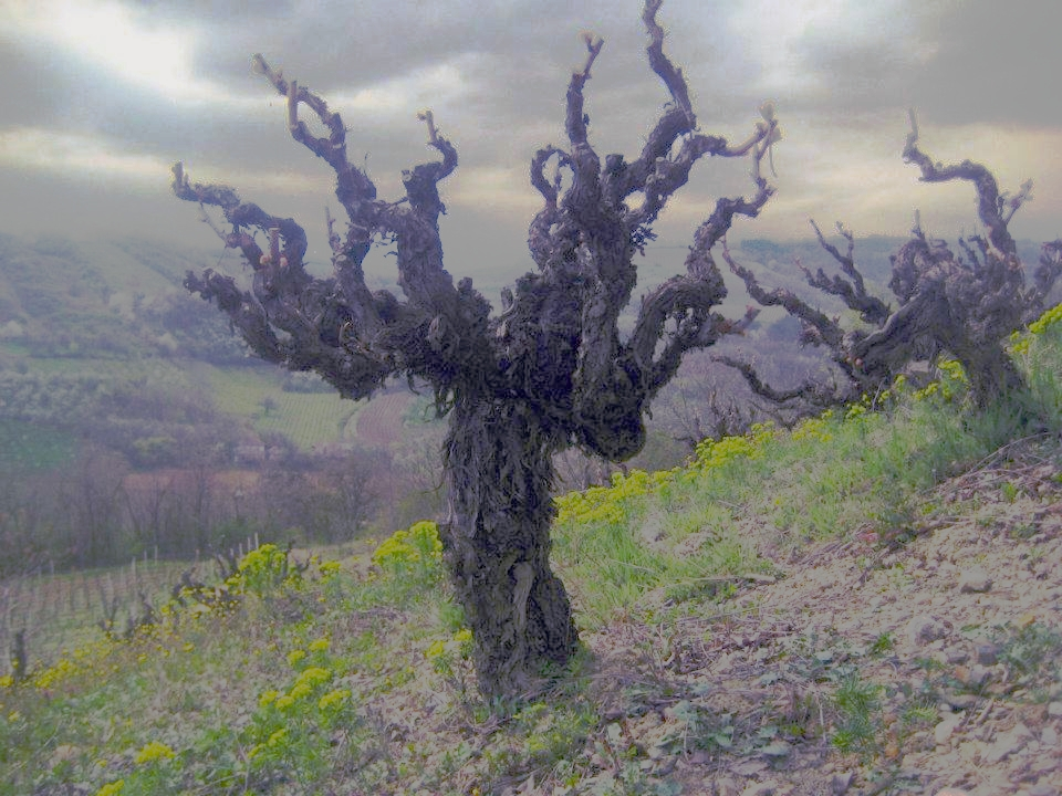 Prokupac über 100 Jahre alte Rebstöcke im Weinberg von Vino Budimir bei Aleksandrovac Zupa